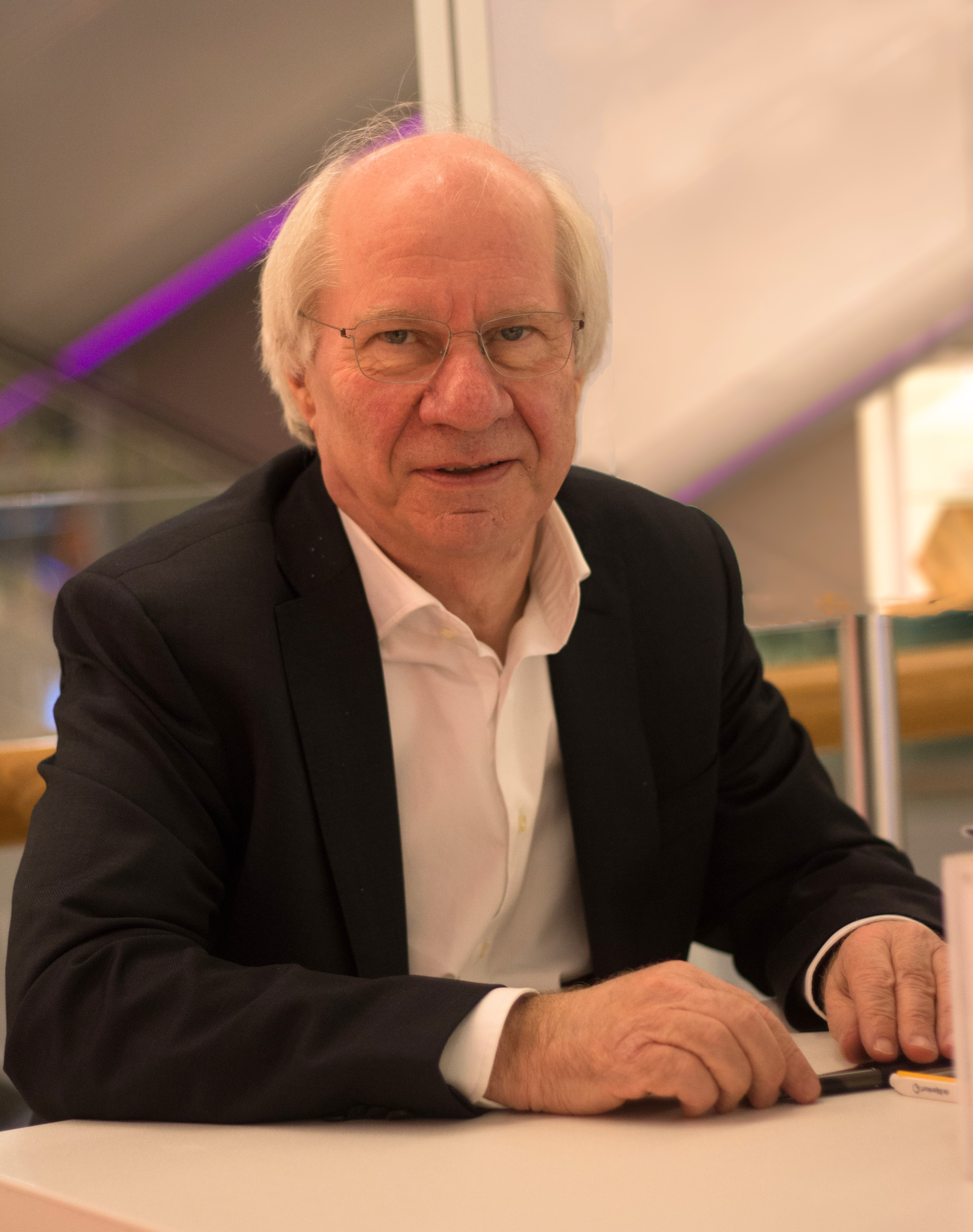 Jan Brokken at the Feest der Letteren